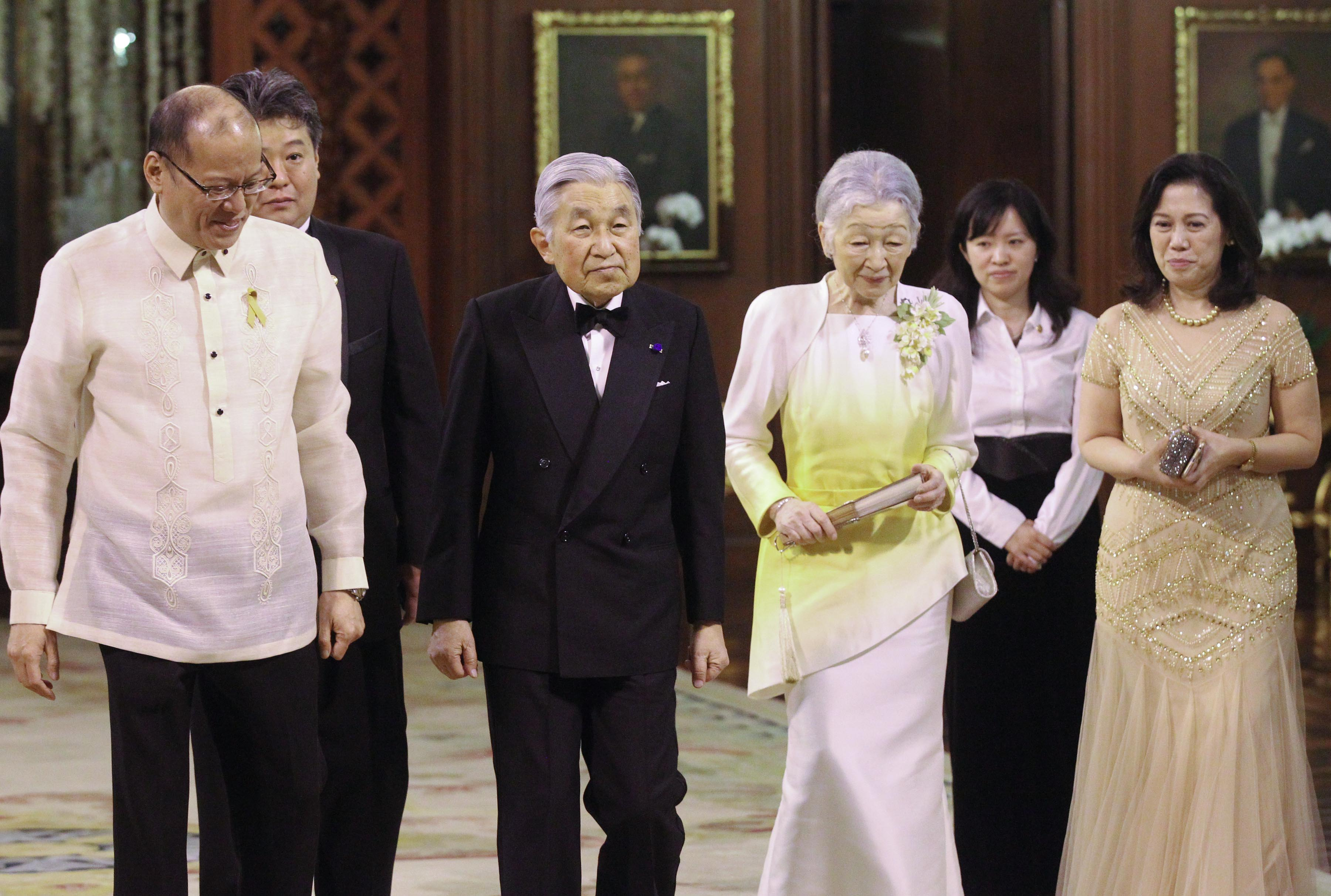 President Benigno S. Aquino III, accompanied by His Majesty Emperor Akihito and Her Majesty Empress Michiko of Japan during their arrival at the Malacañan Palace for the State Dinner on Wednesday (January 27). Also in photo is the Presidential sister Aurora Corazon “Pinky” Aquino-Abellada. (Photo by Robert Viñas / Malacañang Photo Bureau)